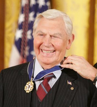 Andy Griffith, Tony Award-nominated and Emmy Award-nominated American actor, producer, writer, director and Grammy Award-winning southern gospel singer. Image taken as President George W. Bush presents him the Presidential Medal of Freedom.